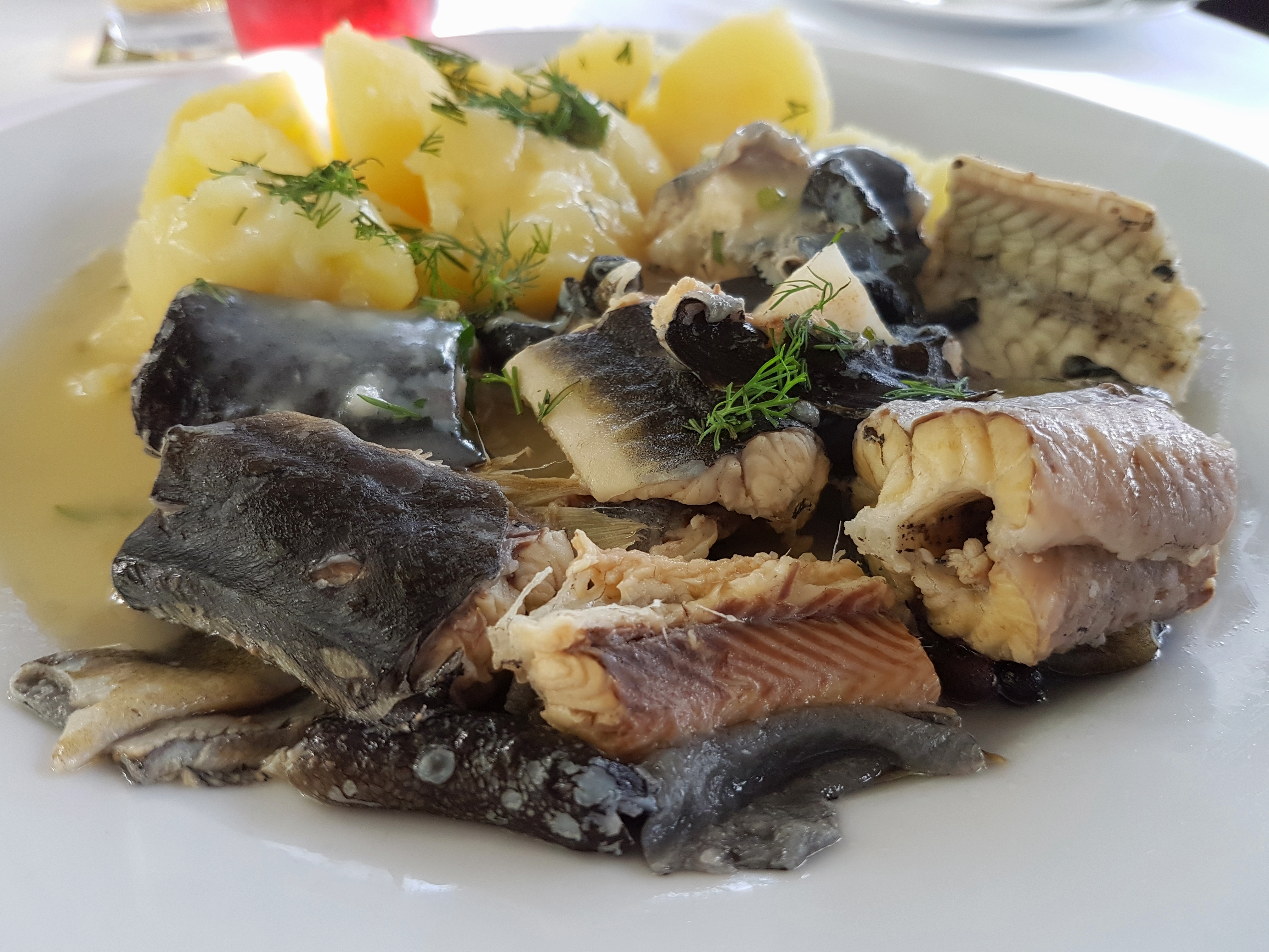 Aal grün (Eel green) - boiled eel with a light herb sauce and boiled potatoes. Photographed in the Fährhaus Caputh.